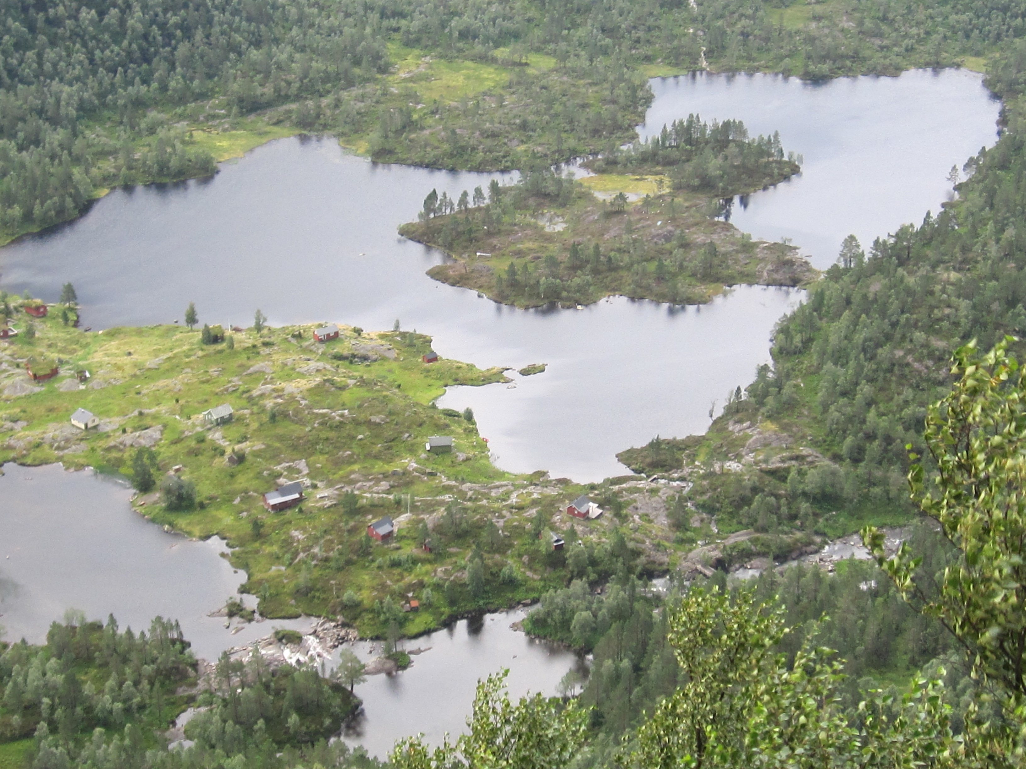 The mountain farm Tjelmen, with Tjelmavatnet and Sagelva, seen from Tempereidnuten in Sauda, Rogaland, Norway